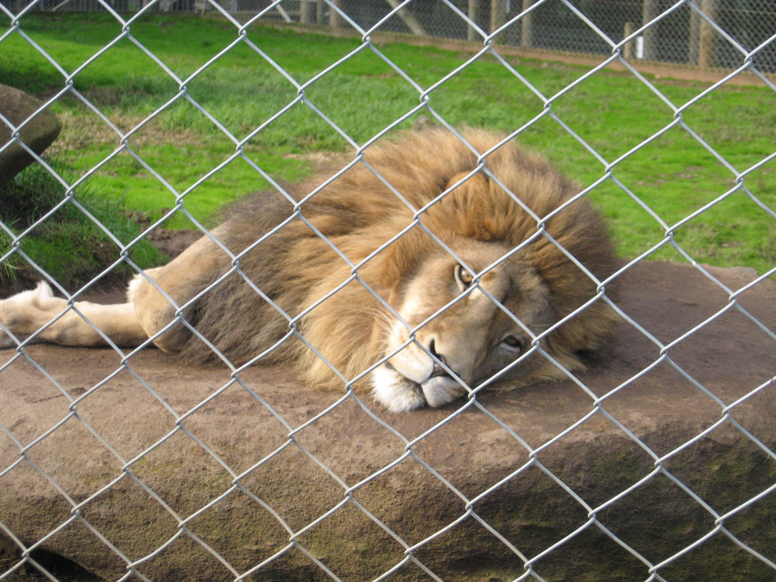 Kingdom of Zion